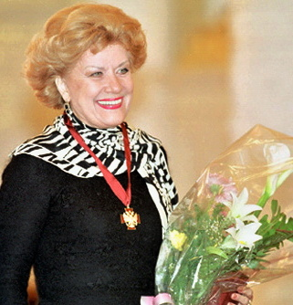 TAS07 MOSCOW,RUSSIA. 2000 MARCH 28.